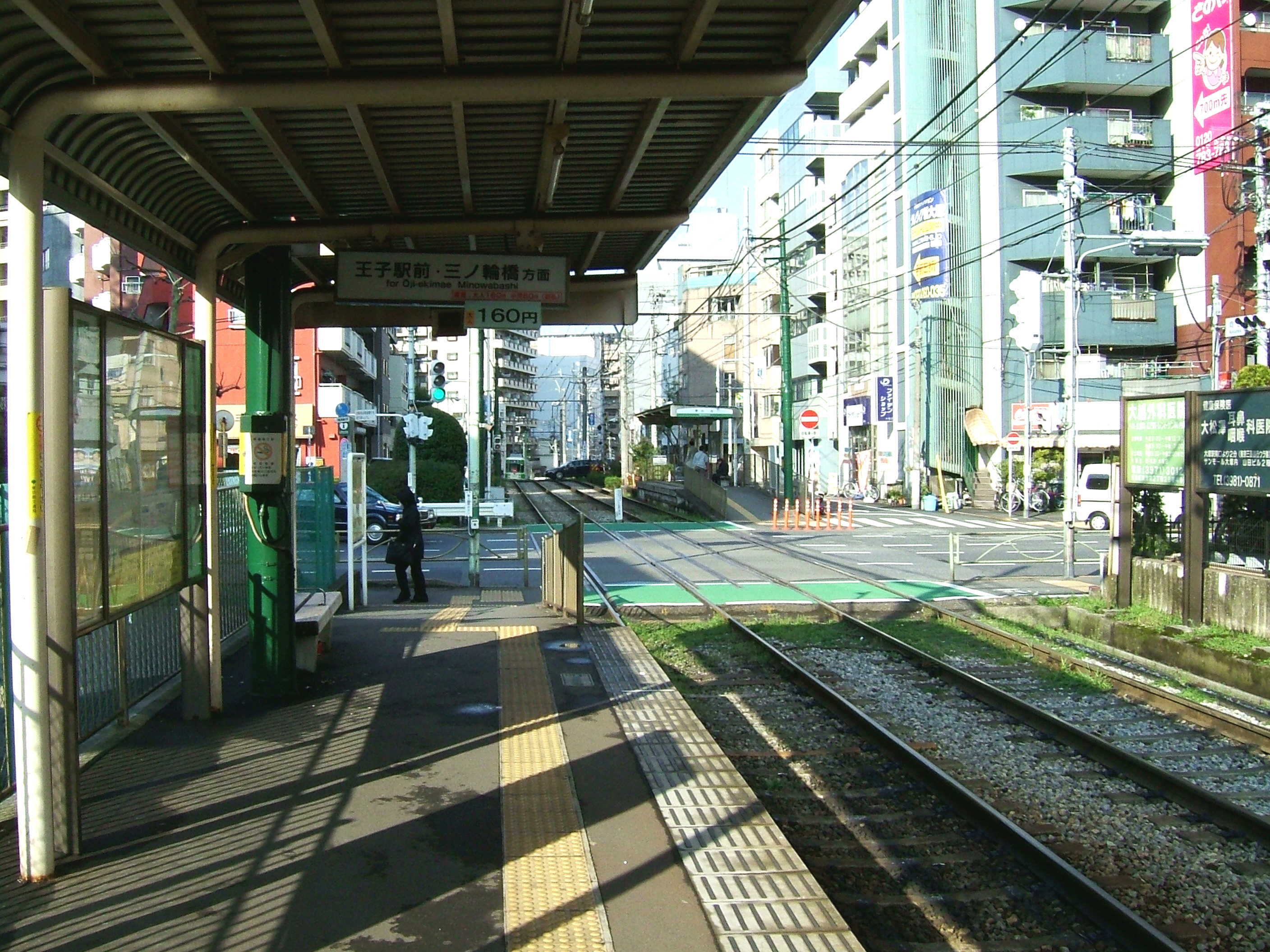 The platforms at Mukōhara Station on the Toden Arakawa Line in Toshima city, Tokyo, Japan